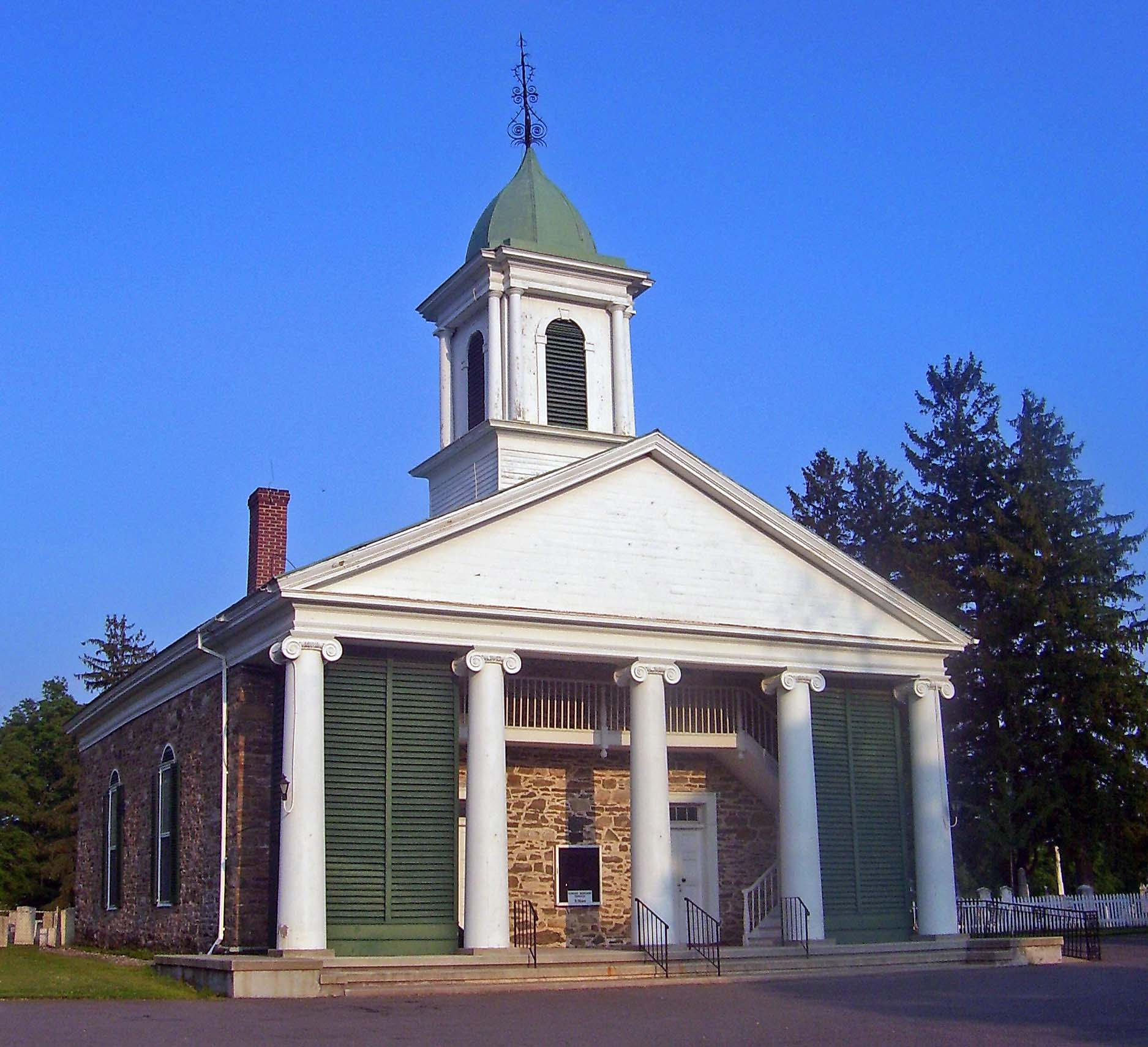 Reformed Dutch Church of Shawangunk, in town of same name, NY, USA